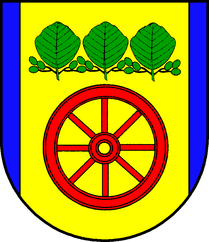 Coat of arms of the municipality Barmissen in Schleswig-Holstein, Germany.